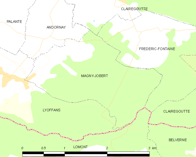 Map of French municipality